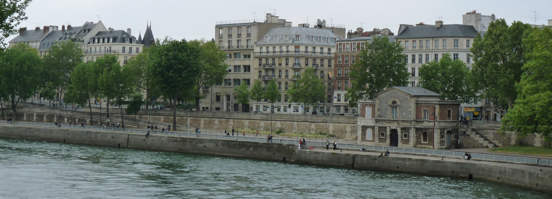 Paris, quai des célestins, seen from pont de Sully